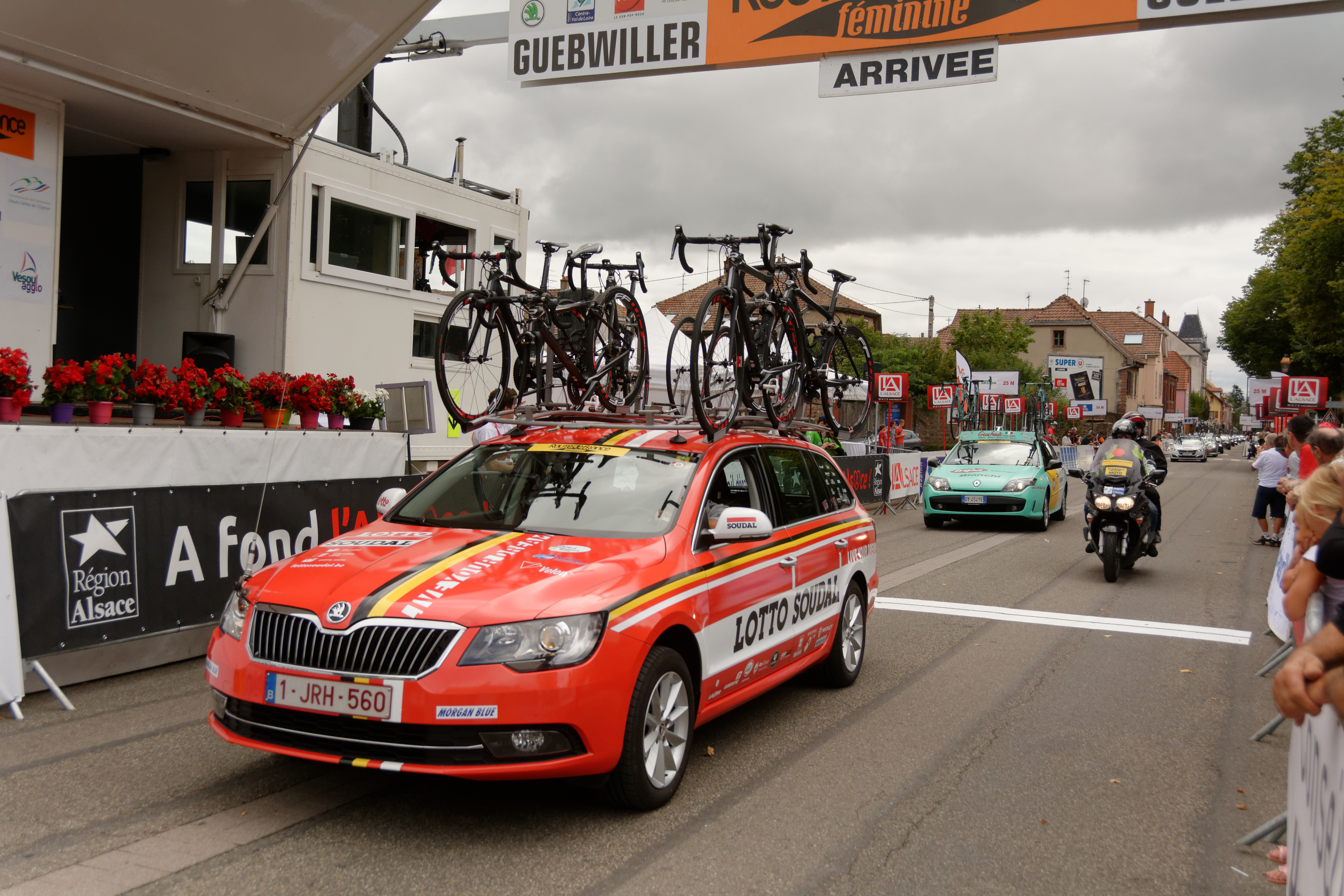 Personality rights warningAlthough this work is freely licensed or in the public domain, the person(s) shown may have rights that legally restrict certain re-uses unless those depicted consent to such uses. In these cases, a model release or other evidence of consent could protect you from infringement claims.